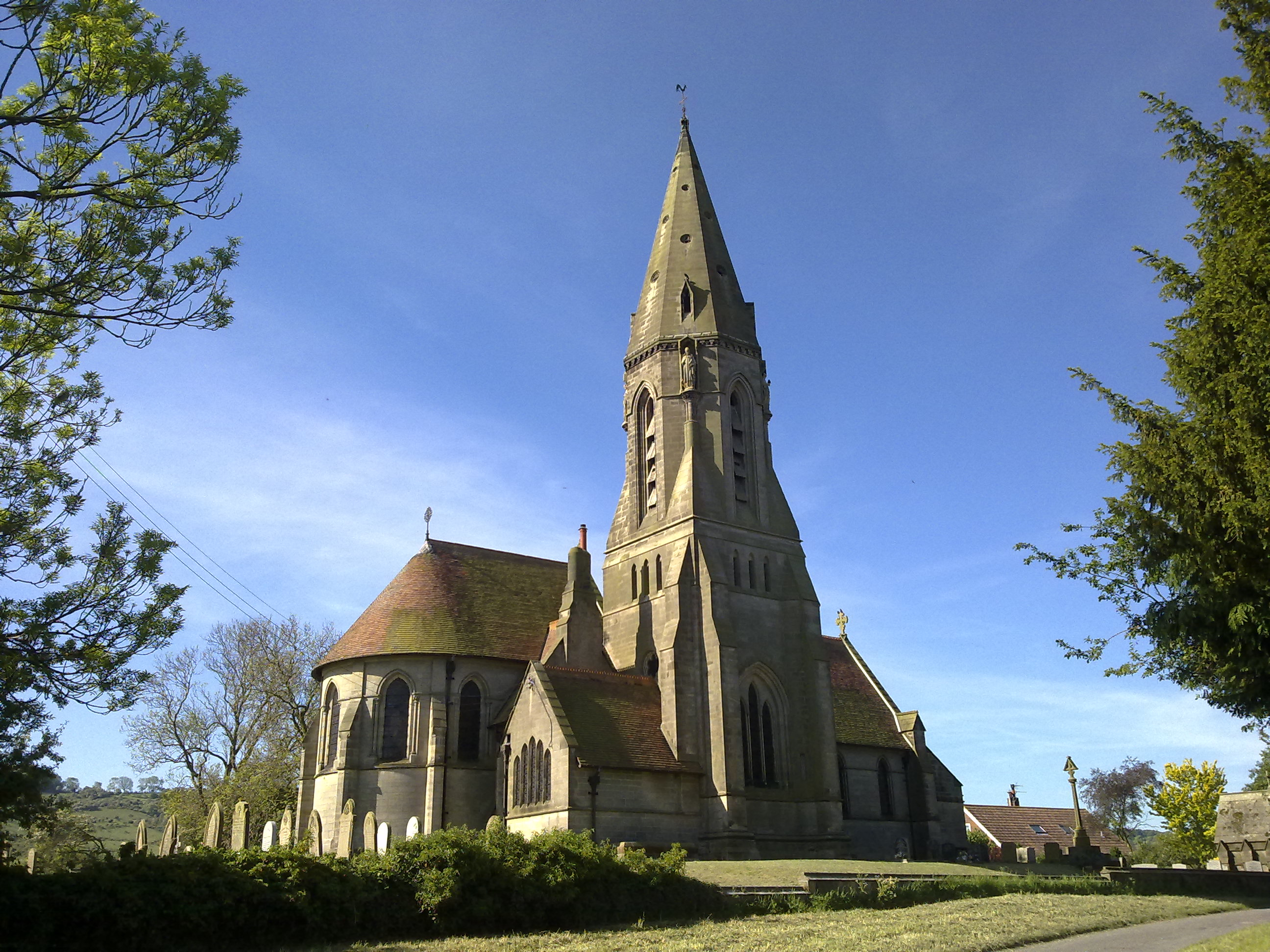 St Andrews Church, East Heslerton North Yorkshire, seen from the northeast